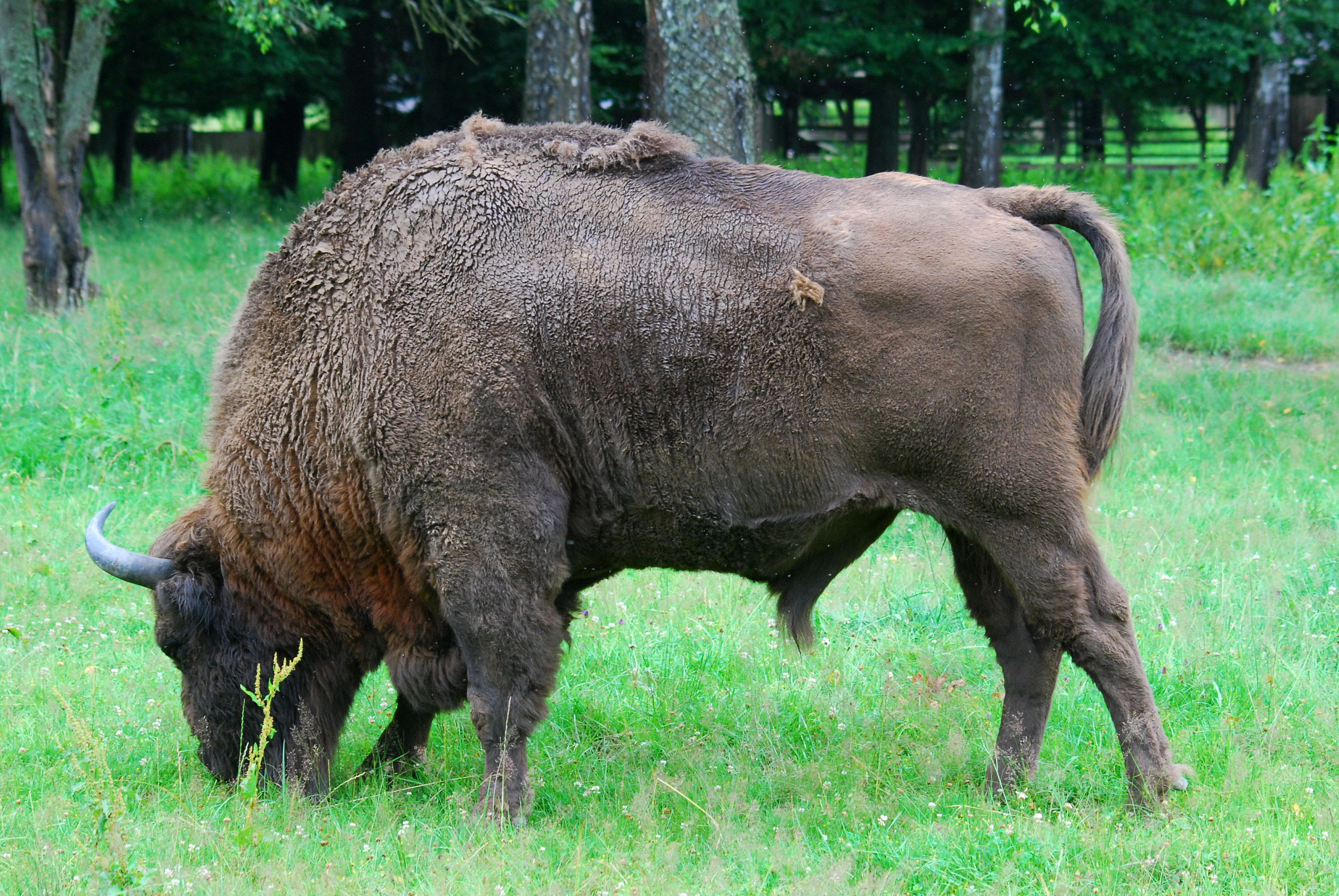 This photo from Podlaskie Voievodeship was taken during Polish Wikiexpedition 2009 set up by Wikimedia Polska Association. The making of this document was supported by Wikimedia Polska. Bison bonasus